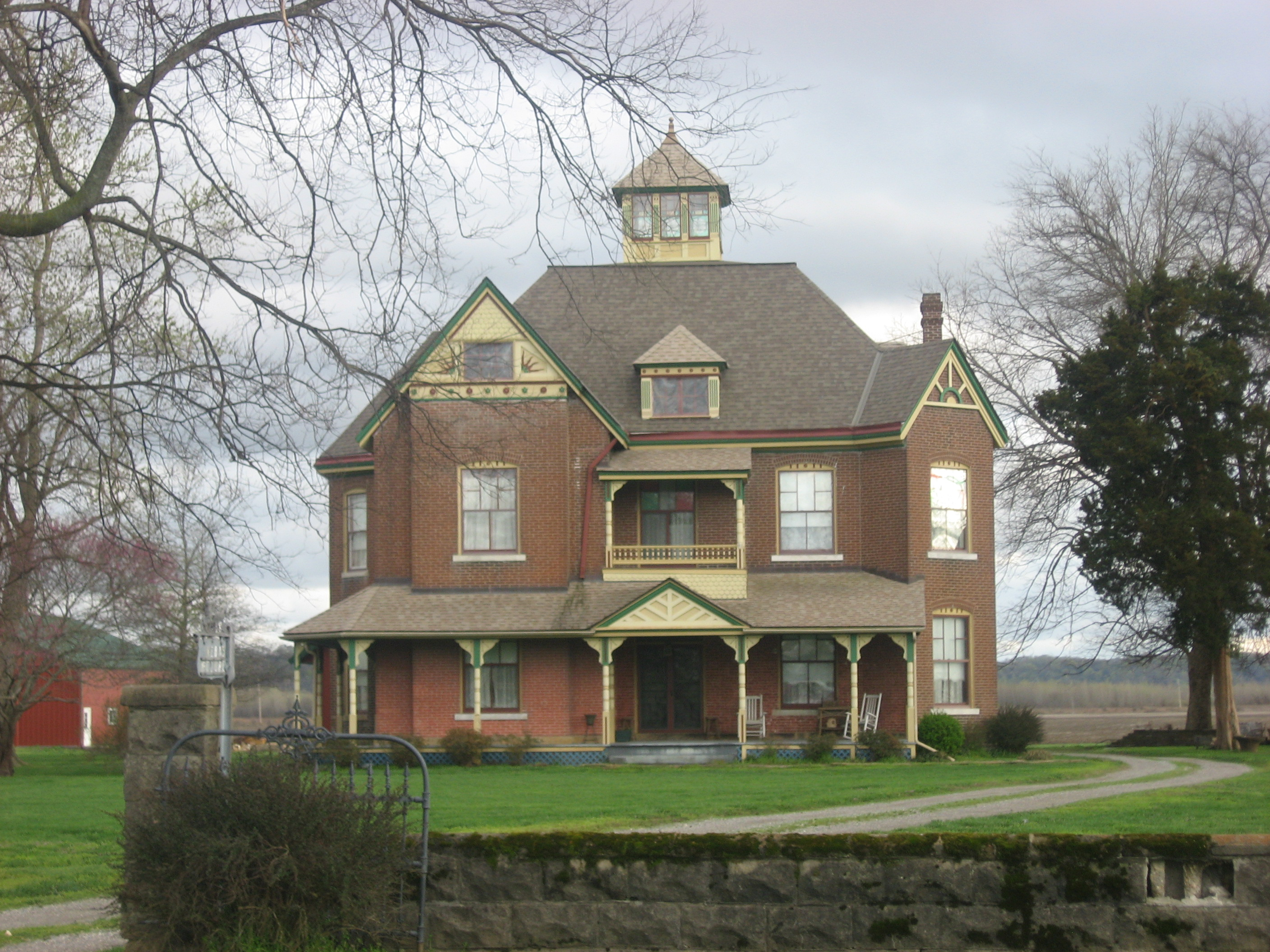 Front of the Thomas J. and Caroline McClure House, located on the southern side of Grapevine Trail on the eastern edge of McClure, Illinois, United States. Built in 1882, it is listed on the National Register of Historic Places.